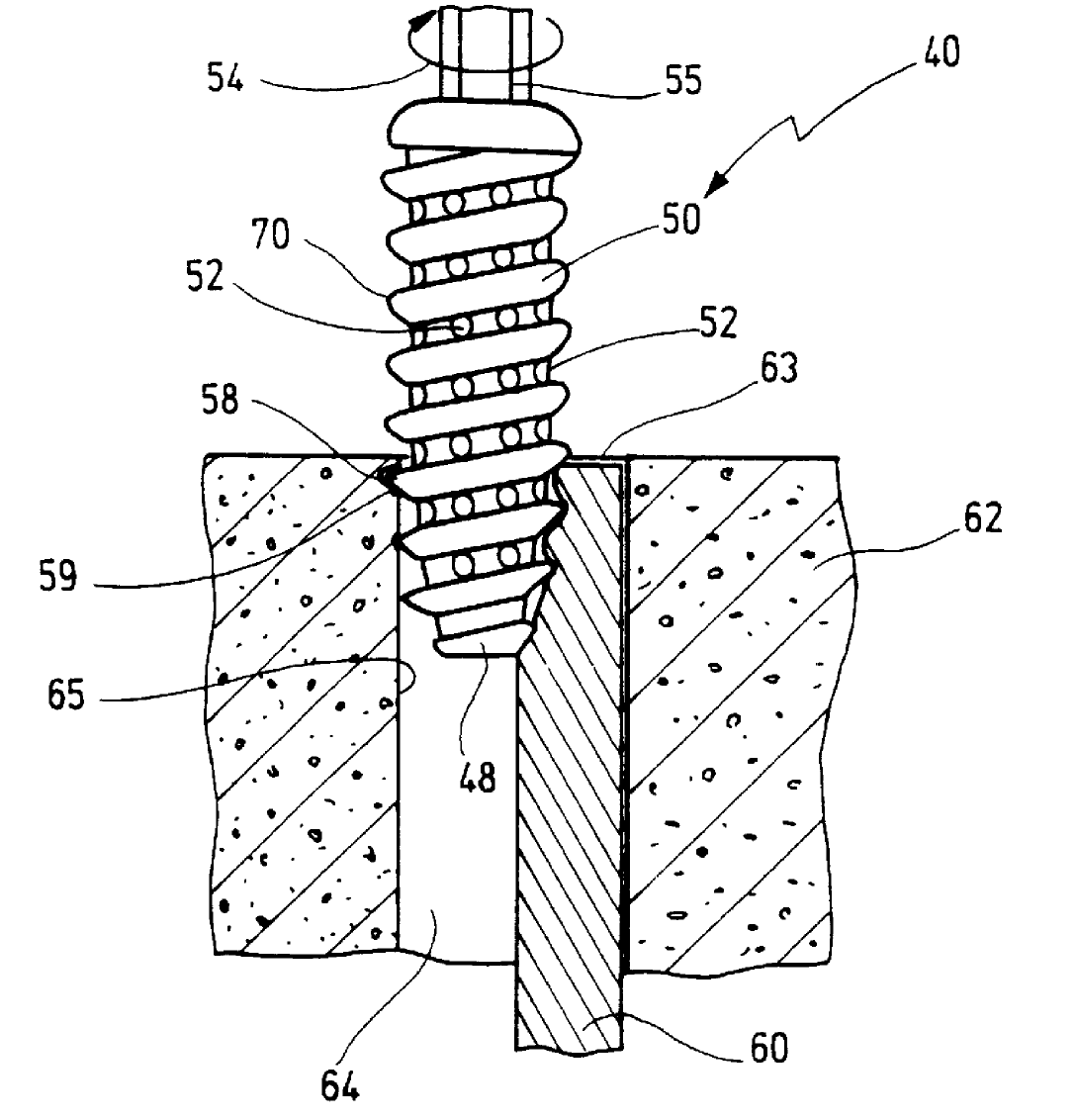 Drawing of an interference screw.